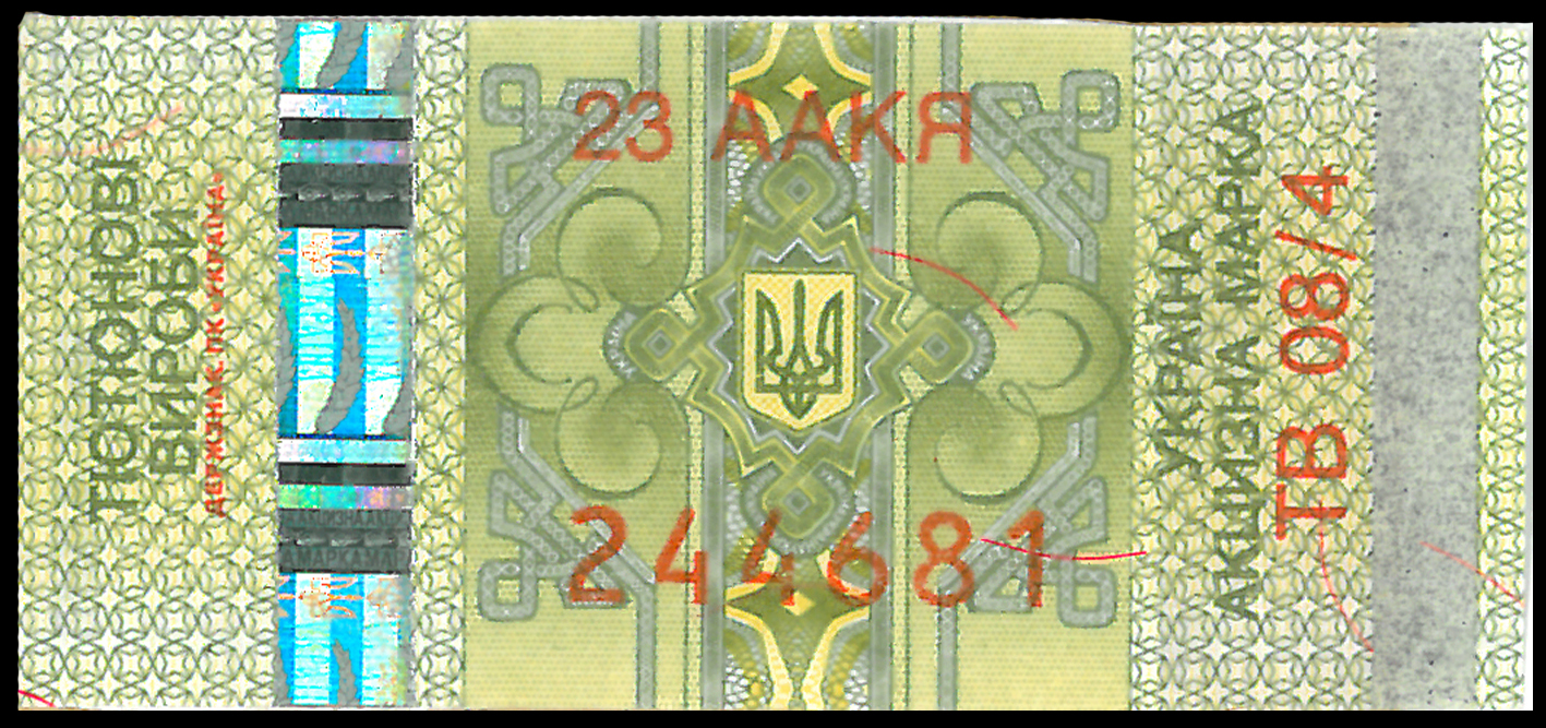 Excise stamp of Ukraine on tobacco products, 2008